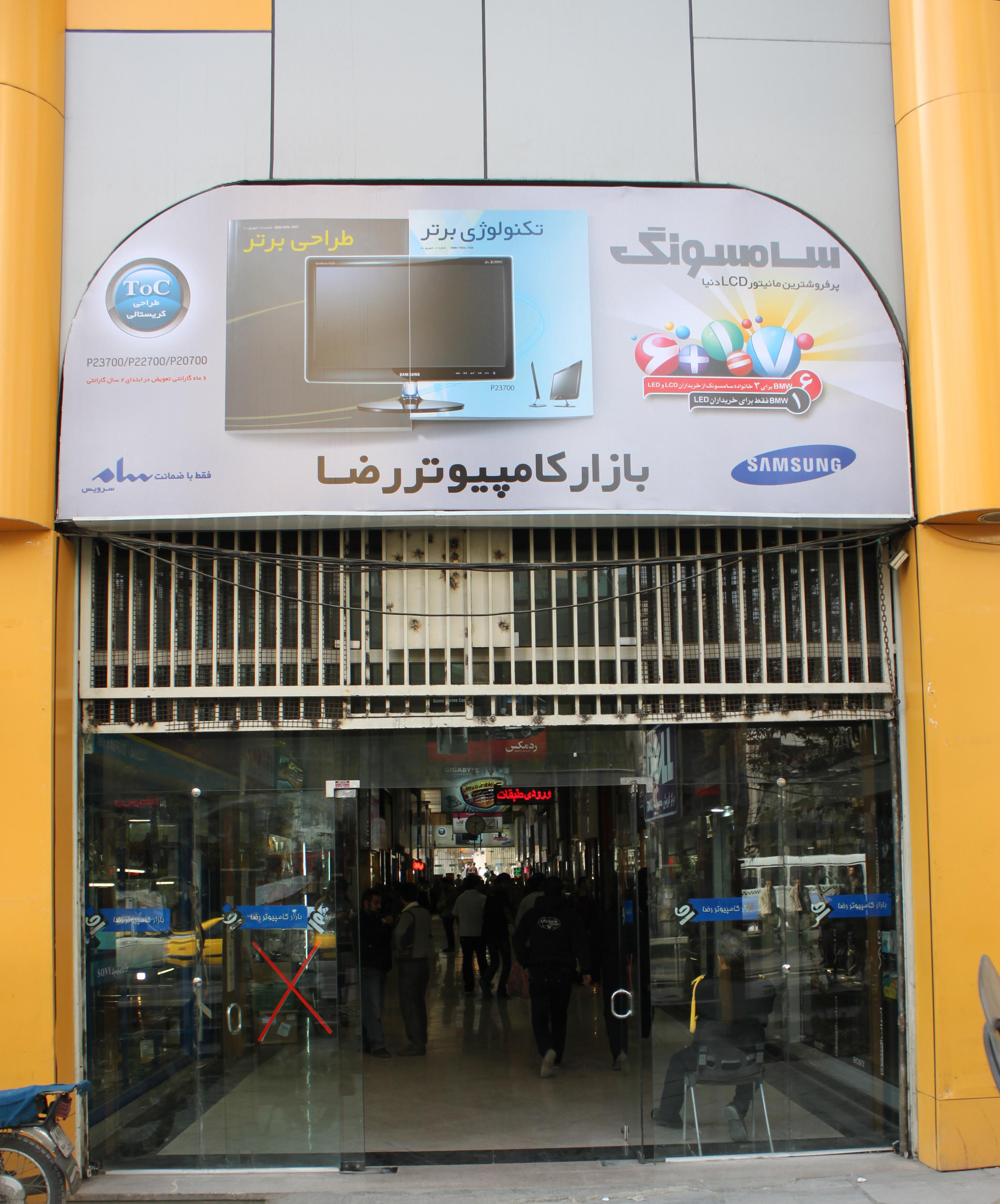 Bazar-reza Computer Center